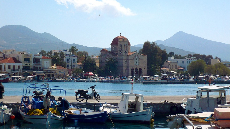 The picture depicts the beautiful Aegina.